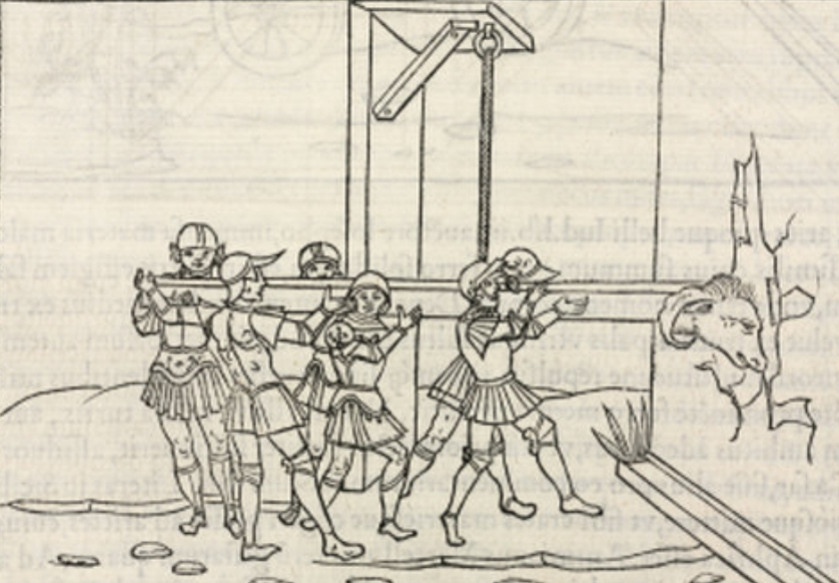 Drawing of a battering ram in a volume of Roberto Valturio's book De Re Militari, printed 1534 in Paris.